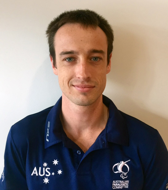 Portrait of 2016 Australian Paralympic Team member Aaron Chatman